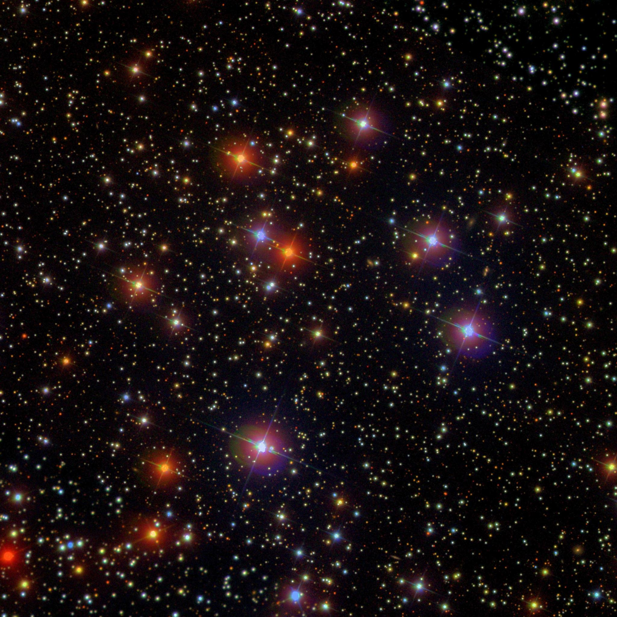 Angle of view: 13.5' × 13.5' (0.396" per pixel), north is up.